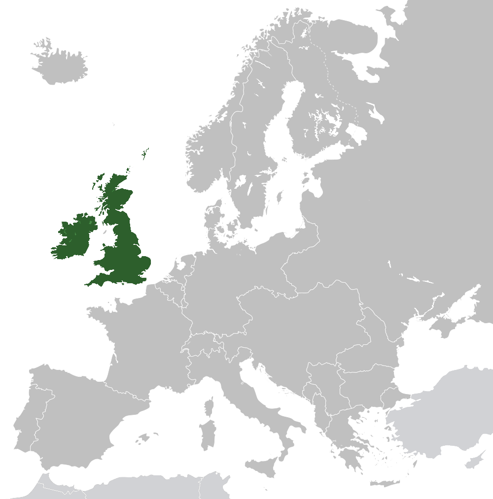 Own work, based upon File:Blank map of Europe 1914.svg